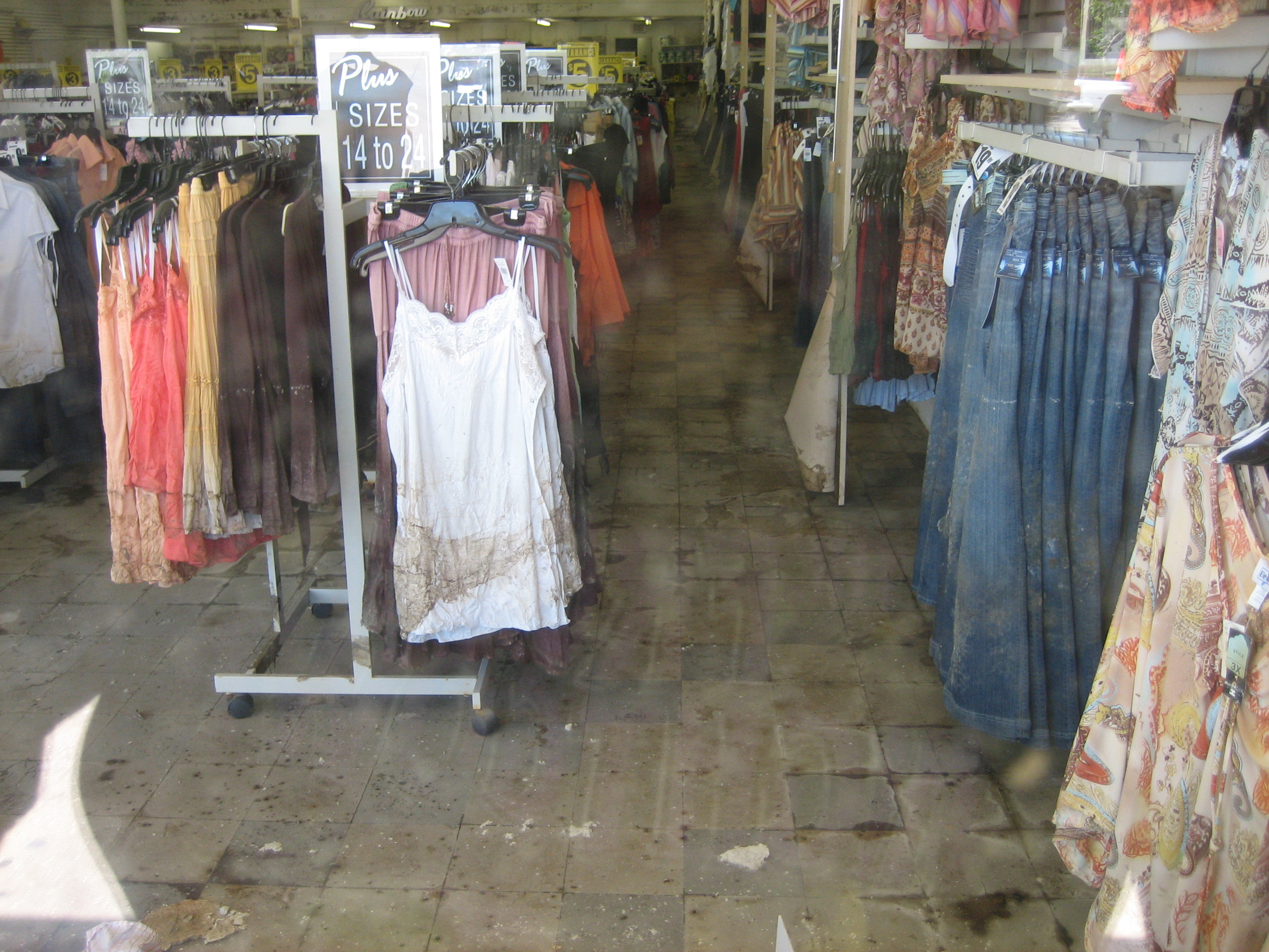 Interior of formerly flooded clothing store in Mid City New Orleans. Seen through shop window months after the Hurricane Katrina levee failure disaster. Note lines from levels of long standing dirty floodwater visible on clothes.